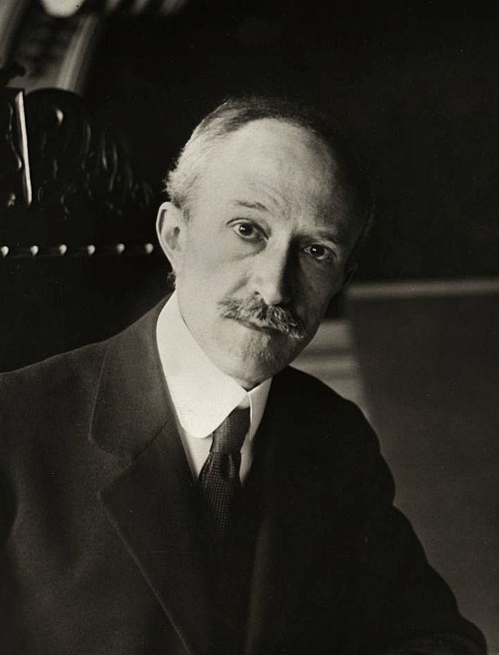 Jacob Patijn, Mayor of the city of The Hague (from 1918 to 1930)